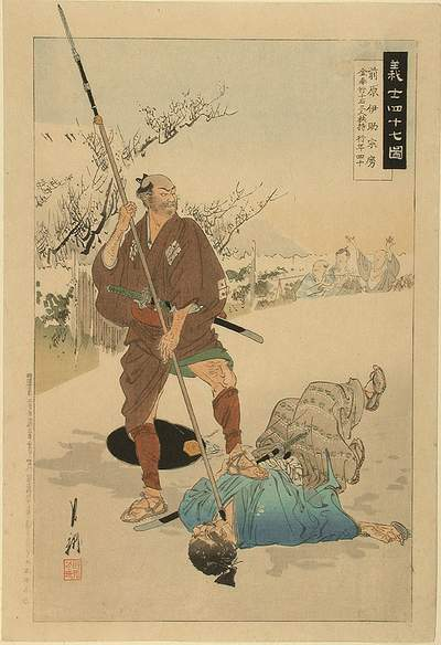 Ronin are masterless samurai. Chushingura is the true story of 47 samurai who became masterless in 1701, after their lord had been forced to commit ritual suicide (seppuku) for assaulting a court official who had insulted him. They avenged him by killing the court official after patiently planning for over a year. They were themselves then forced to commit seppuku.